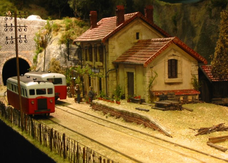 a layout by Bernard Junk at Expometrique 2005